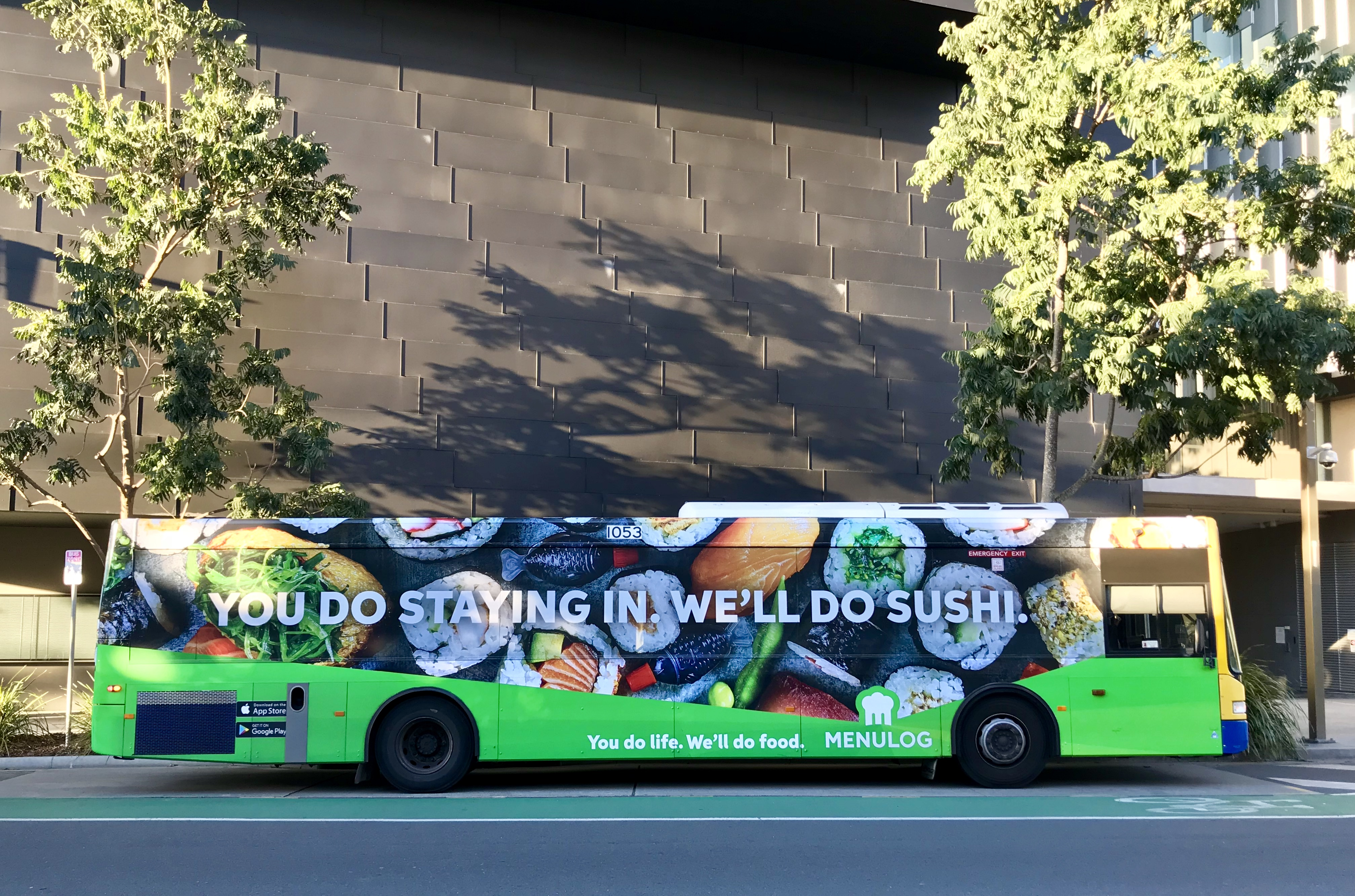 Menulog advertisement on bus in Brisbane